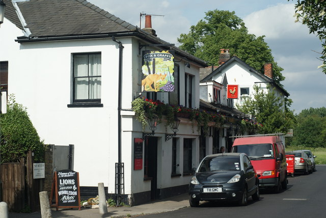 Wimbledon Common - Fox & Grapes PH Nice location; I'm sure it's popular on summer evenings.